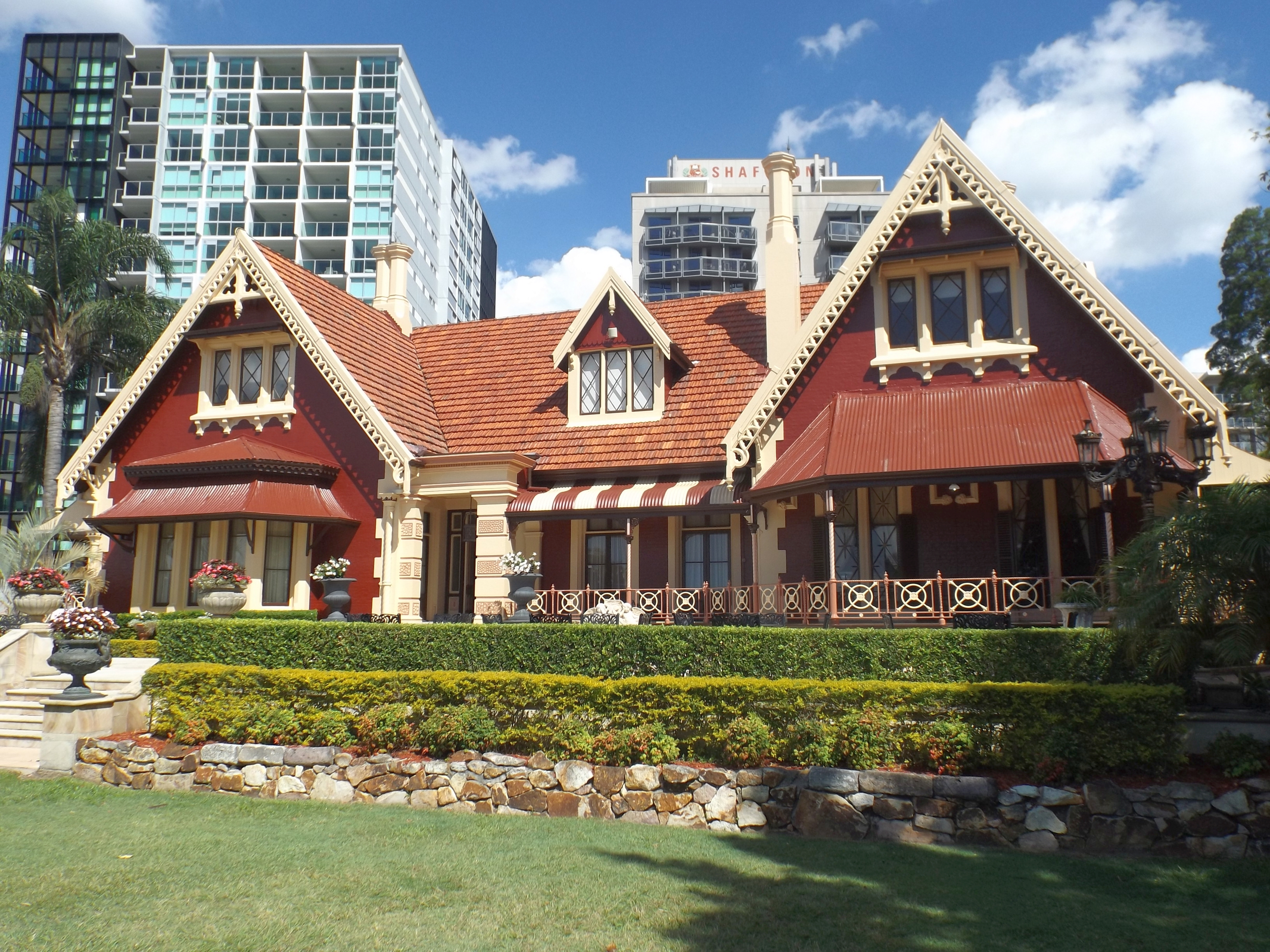 Photo of Shafston House at Kangaroo Point, Brisbane, Queensland, Australia.